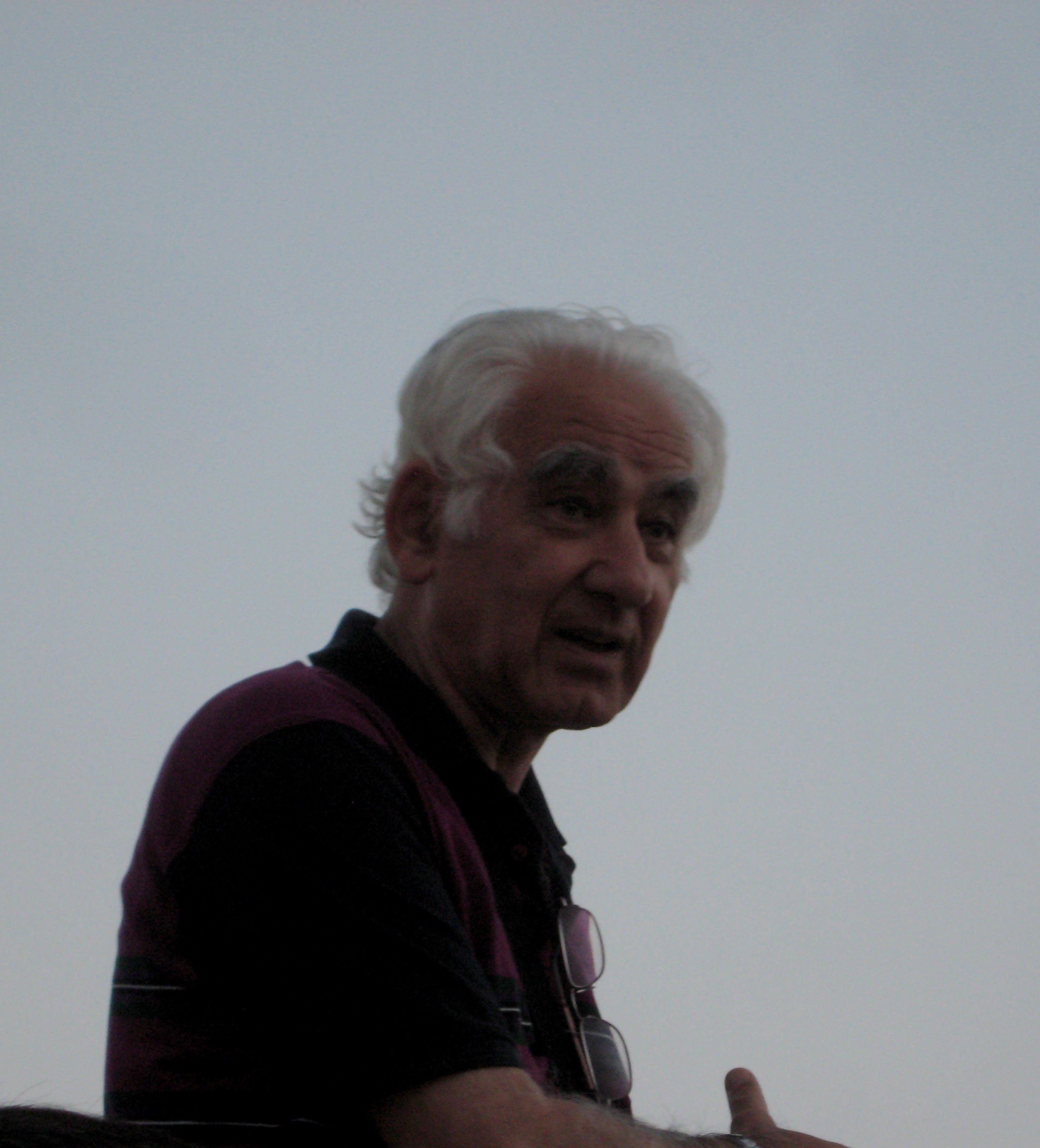 Zeki Aslan talking about the history of TÜBİTAK National Observatory at Mt. Nemrut.